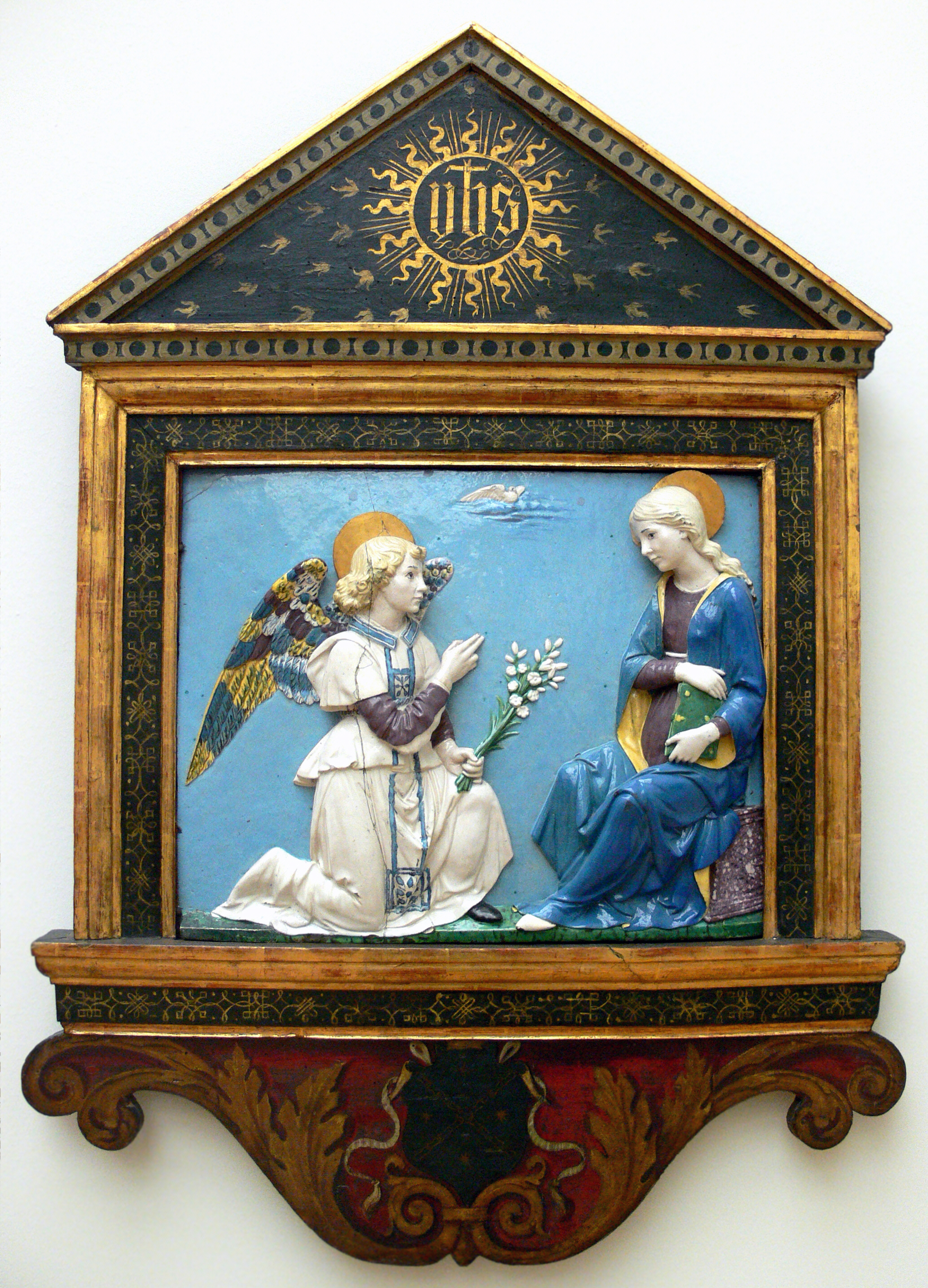 The Annunciation